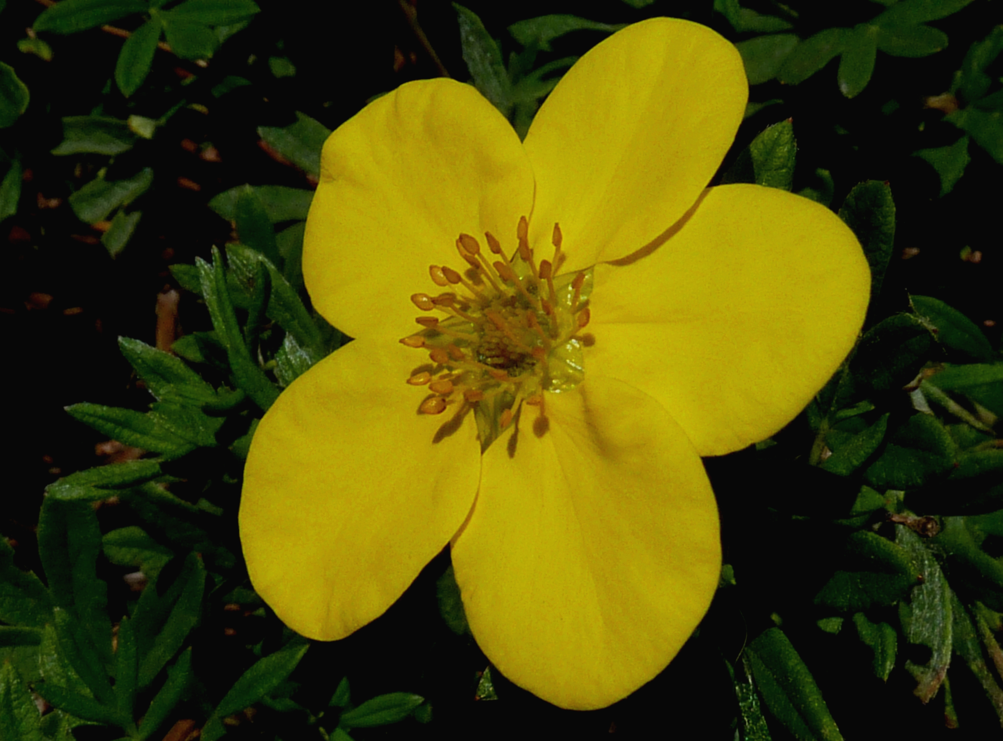 Potentilla fruticosa, in a garden in Belgium.